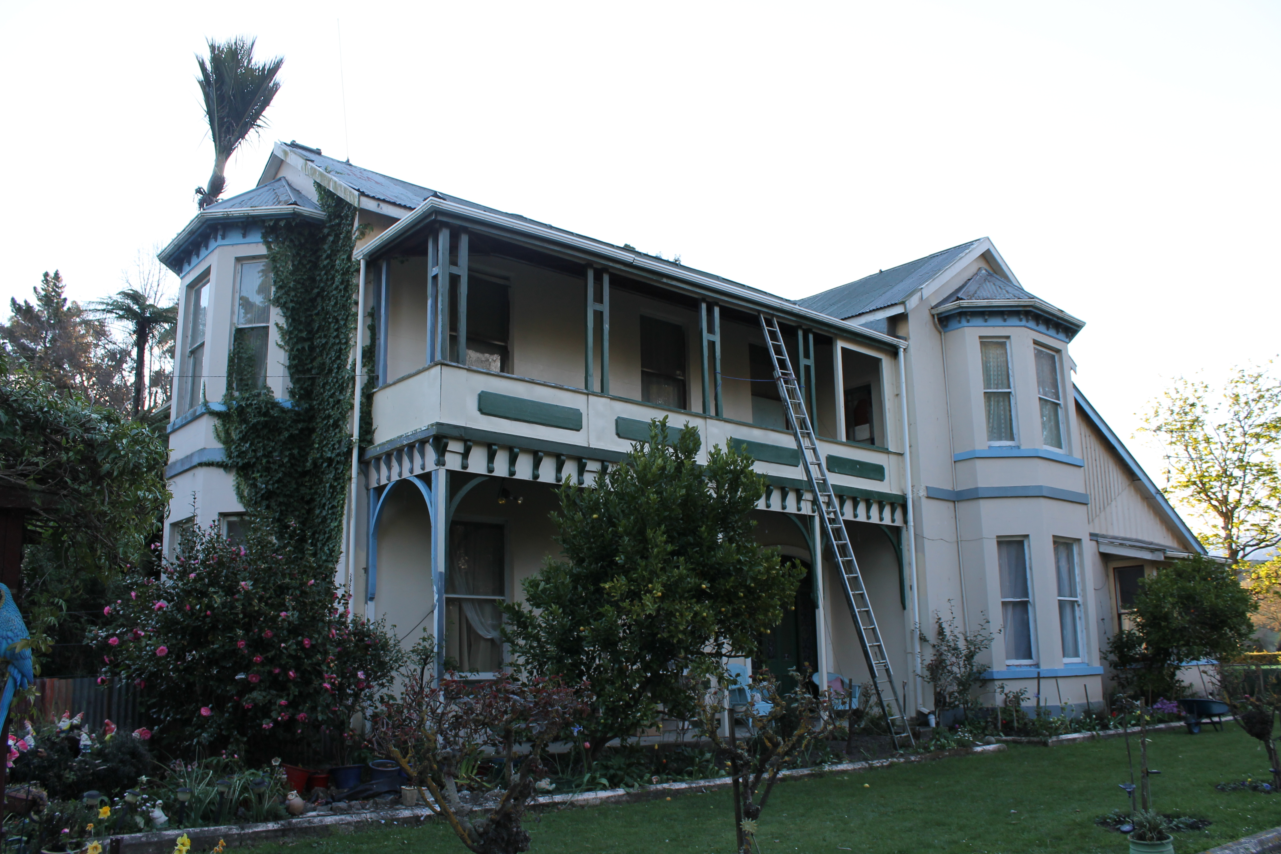 Elms Farm in September 2012.